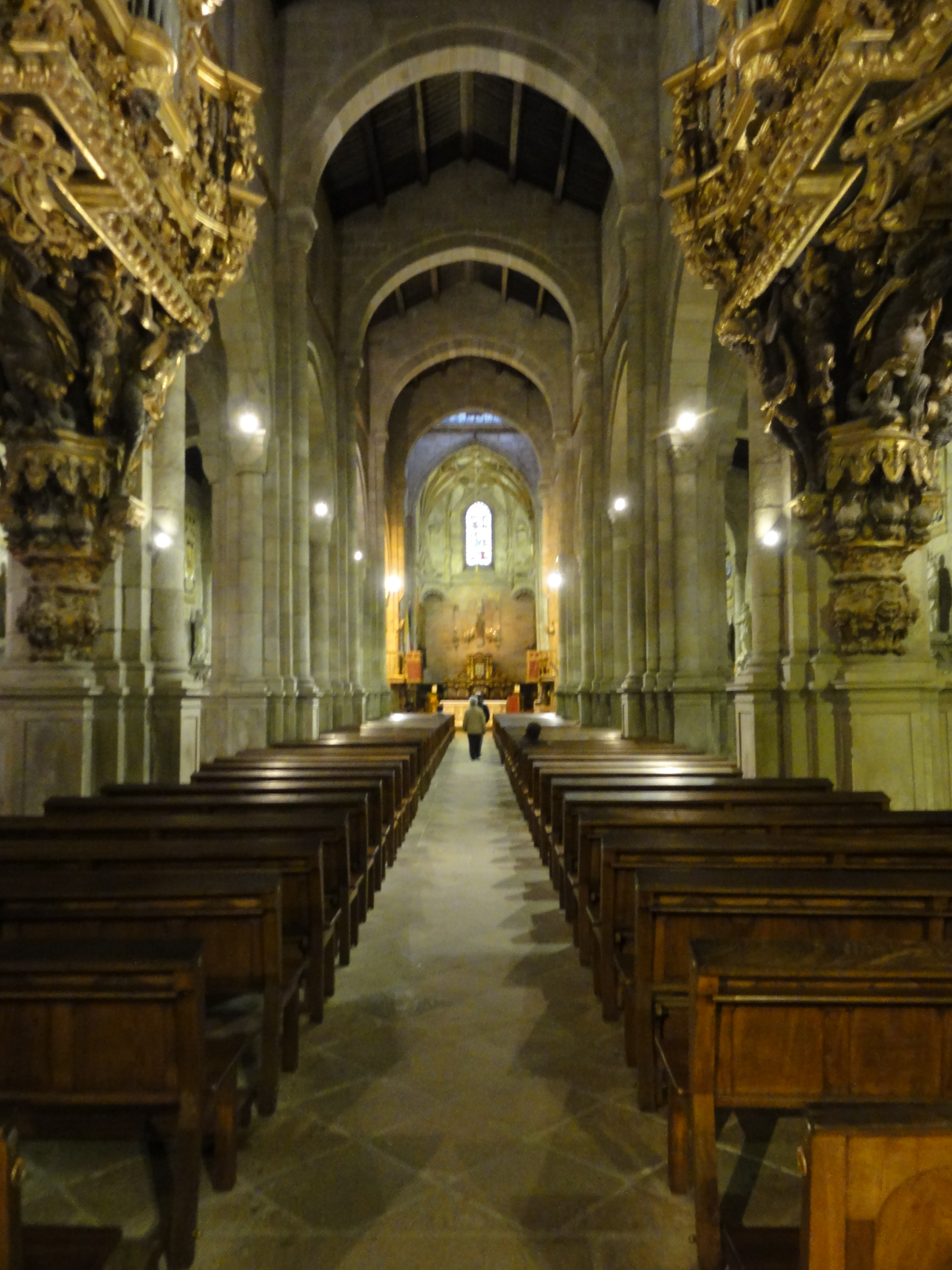 Cathedral Sé de Braga (Portugal) The nave has a wooden roof supported by several diaphragm arches.